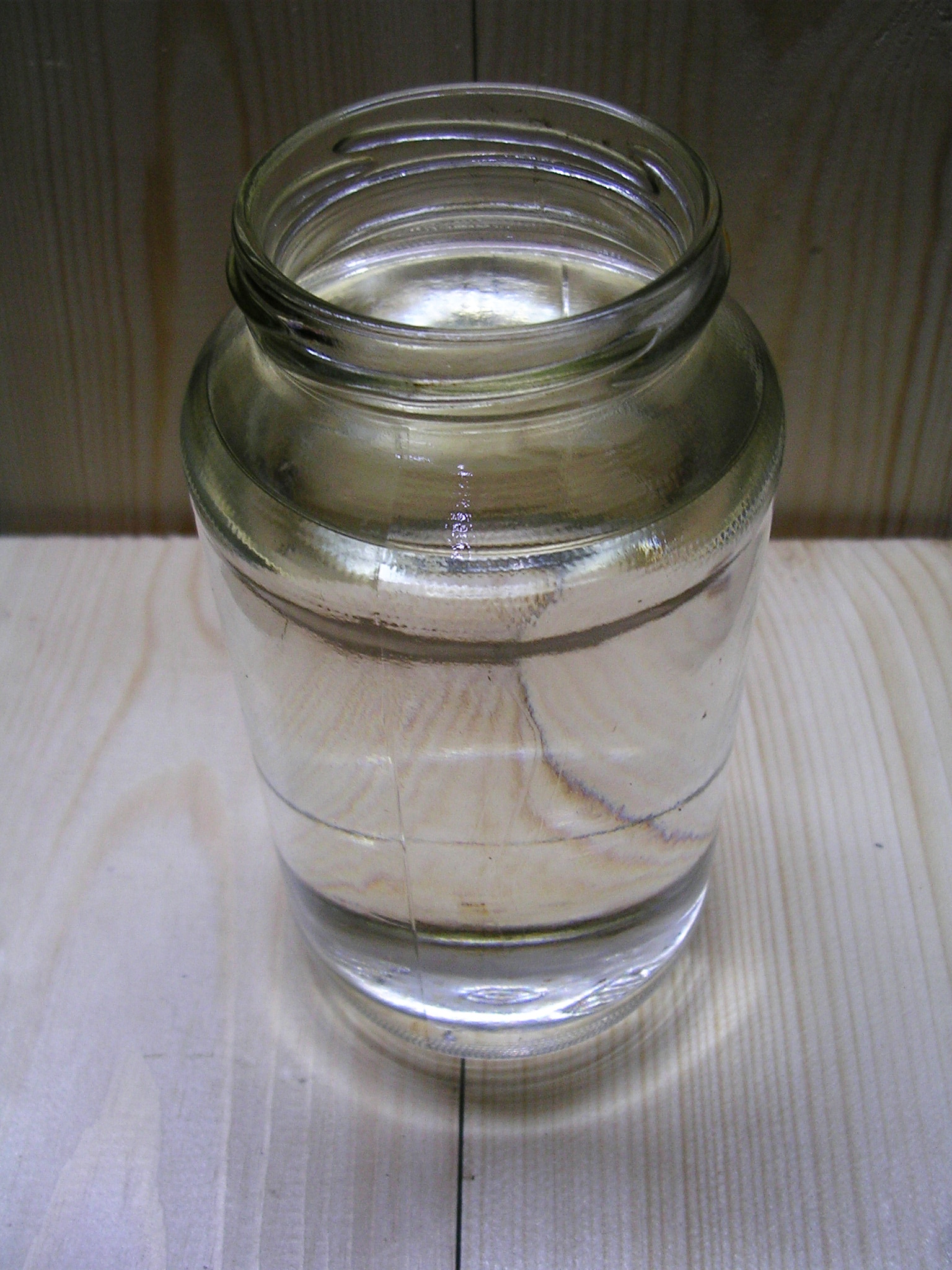 Lighting kerosene in 720 ml mason jar